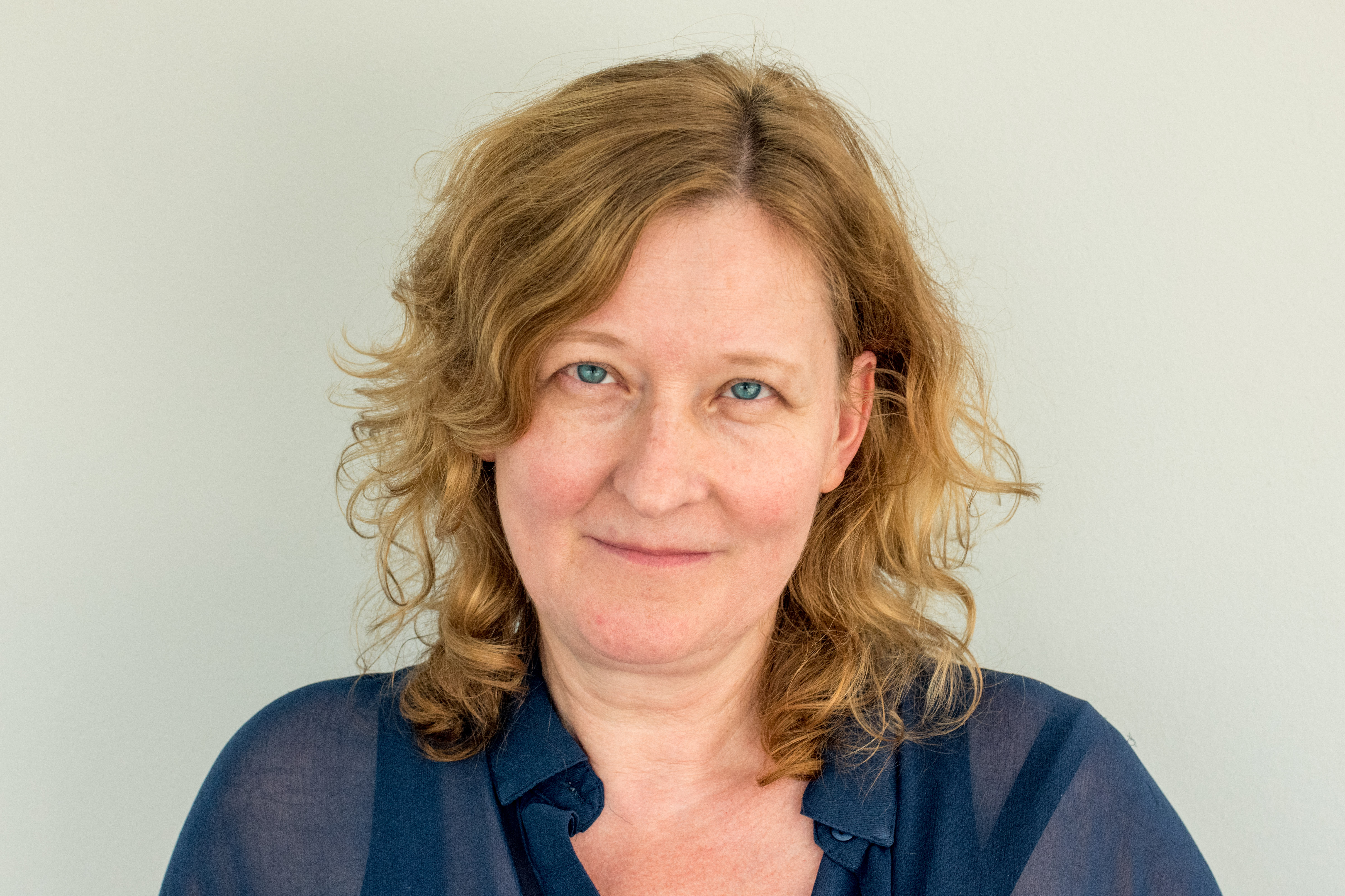 Crossing Europe 2018 - Ursula Wolschlager